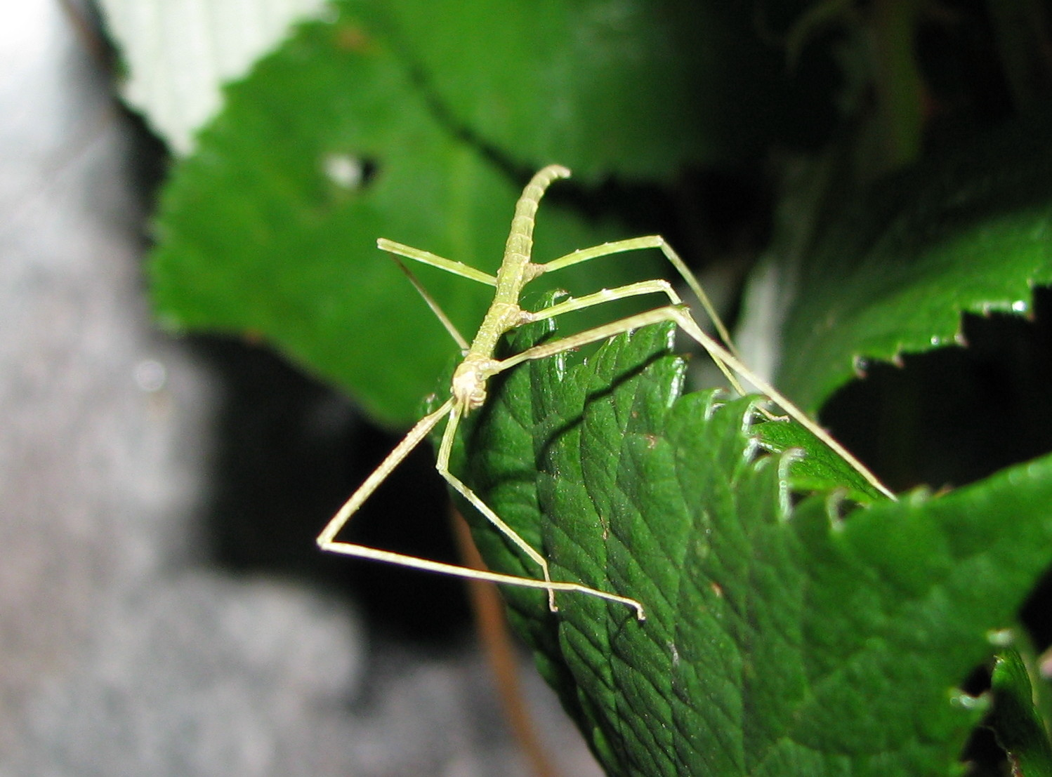 Annam Stick Insect(Medauroidea extradentata) nymph